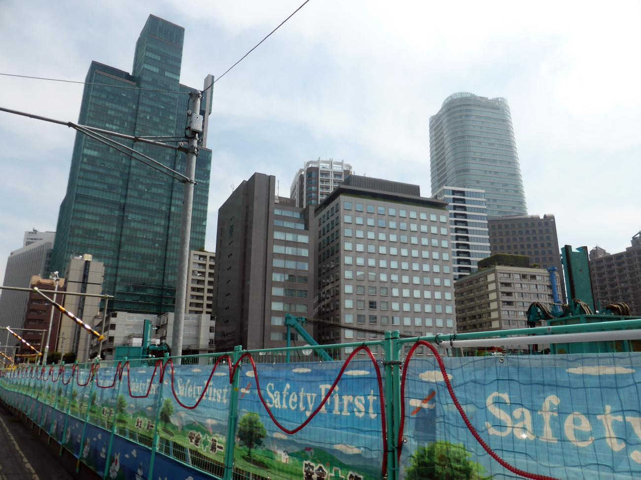 Exterior view of the back side of the Royal Embassy of Saudi Arabia in Tokyo, Japan.